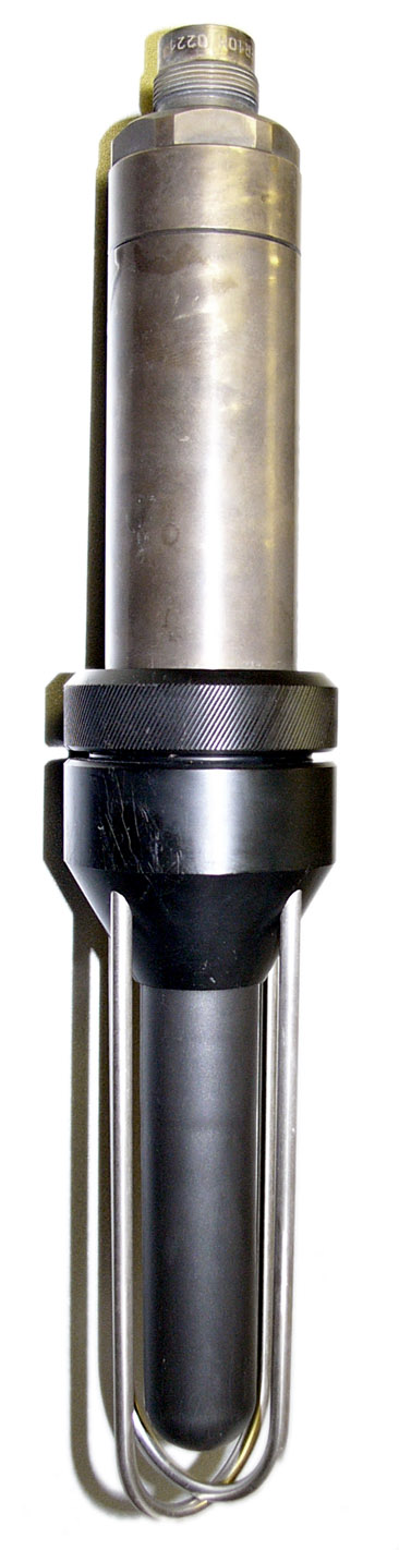 RESON TC4032 hydrophone used for scientific studies, see PALAOA - PerenniAL Acoustic Observatory in the Antarctic Ocean or RESON Hydrophones